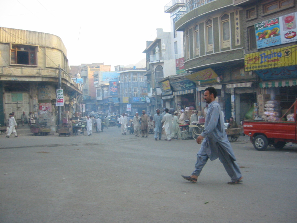 Taj Chowk, A street in Mingora, Pakistan.